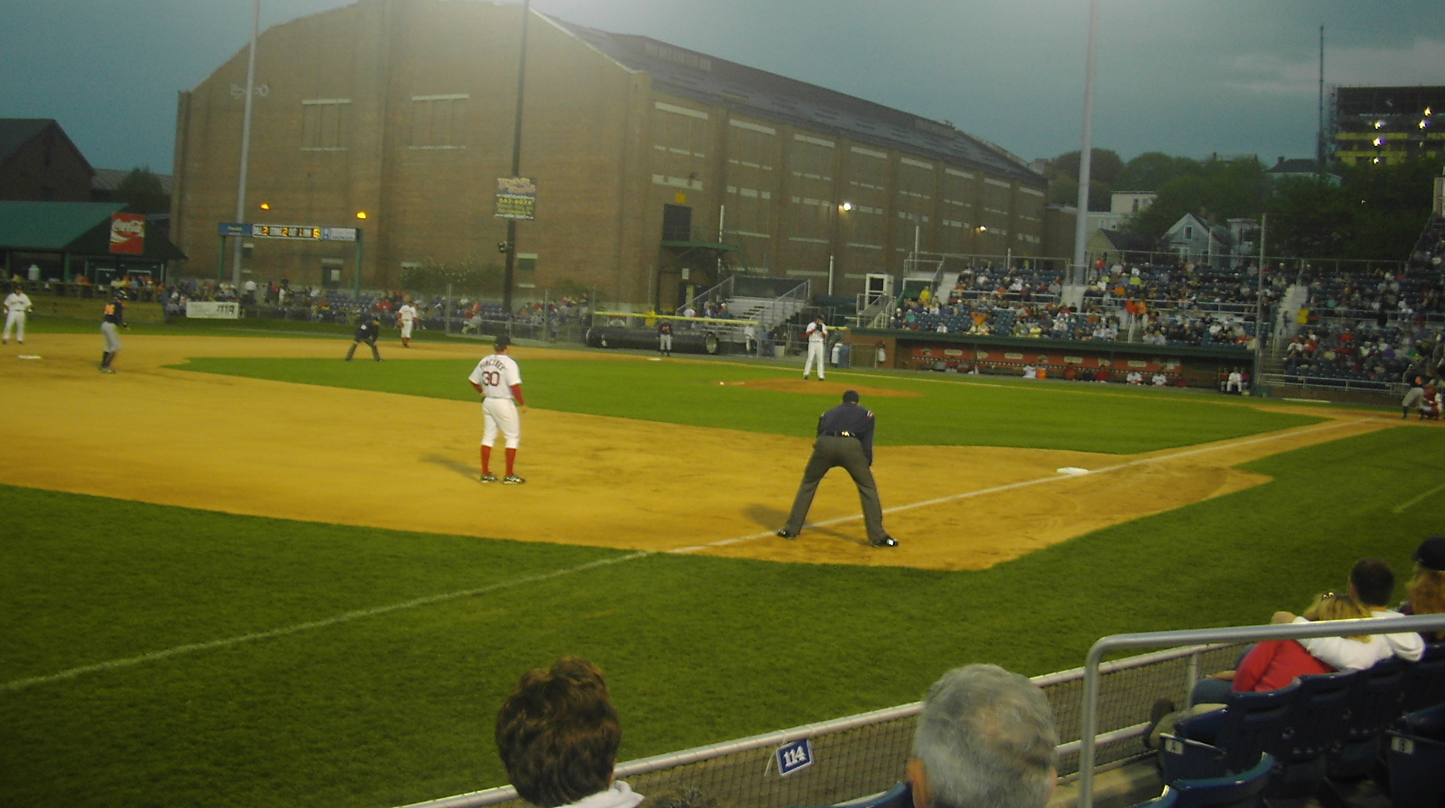 Portland Seadogs, AA team under Boston Red Sox, in their home game at Hadlock Field.